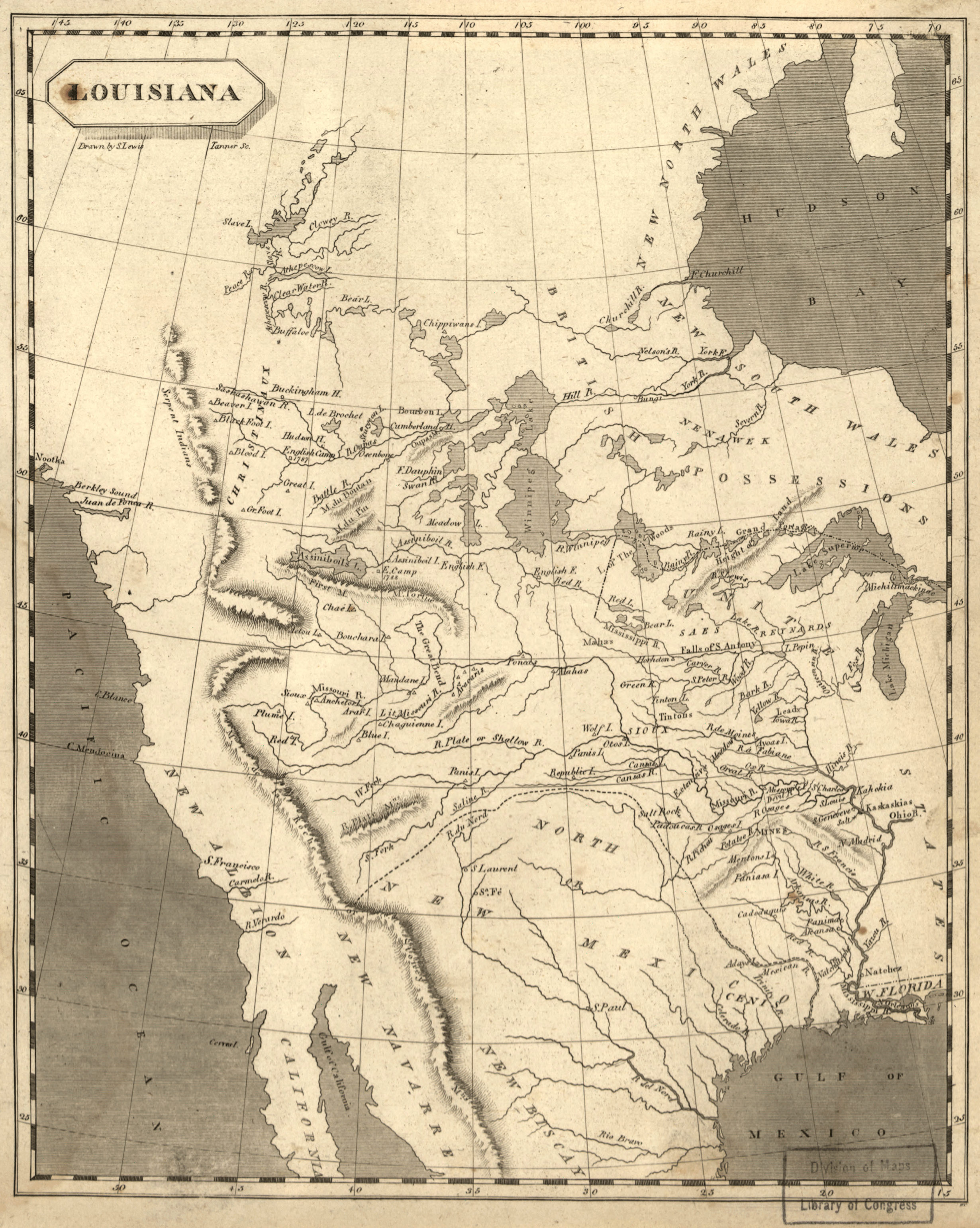 1804 map of "Louisiana" Samuel Lewis (ca.1753-1822). "Louisiana" in Aaron Arrowsmith, New and Elegant General Atlas. Philadelphia: 1804 Engraved map Library or Congress Geography and Map Division (34)